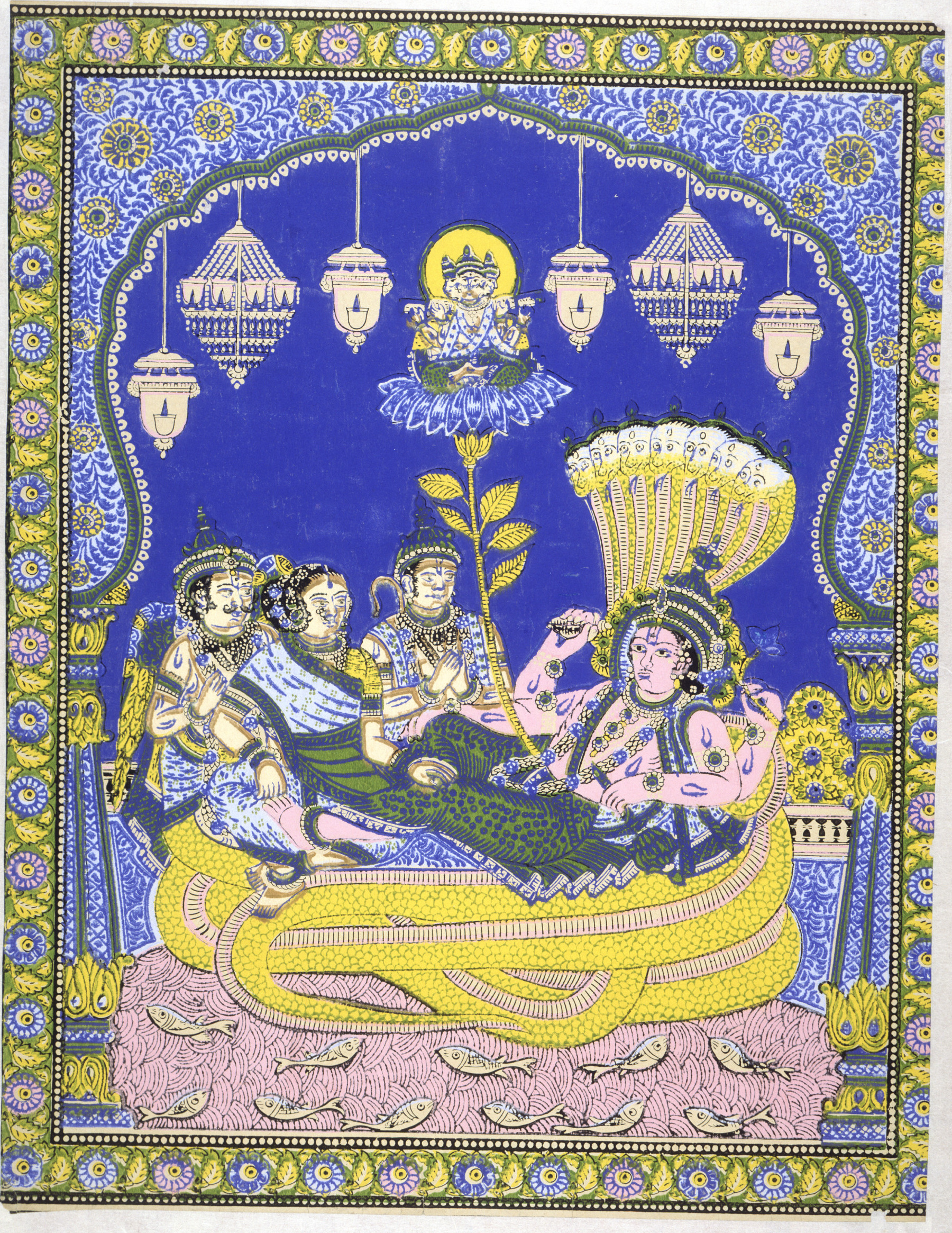 Object Type Paper printed with patterns has been used to decorate walls since the 16th century. However, the many Europeans living in India in the 19th century found it impractical to introduce the fashion for wallpaper there as the climate was not suitable. The heat and humidity caused the paper to peel away from the wall after a short time, and it would also become infested with insects. It seems likely, therefore, that these wallpaper panels were produced to be used as temporary decorations, perhaps for religious festivals. Subjects Depicted This scene appears to have been copied from a 19th-century south Indian painting. It combines elements of European design (the chandeliers) with decorative features (the arch) characteristic of Indian art of the Mughal period (1526-1857). The figures depicted in this panel and others in the series are all characters from Hindu mythology. The god Vishnu (the Preserver) is seen reclining on the serpent Ananta, on the waters of Nara; Brahma (the Creator in the Hindu pantheon) appears in a lotus flower which rises from Vishnu's navel. Vishnu's sleep on the eternal waters symbolises the dormant periods between the ages of the universe. Brahma's reappearance signals his re-creation of the universe to begin a new age.